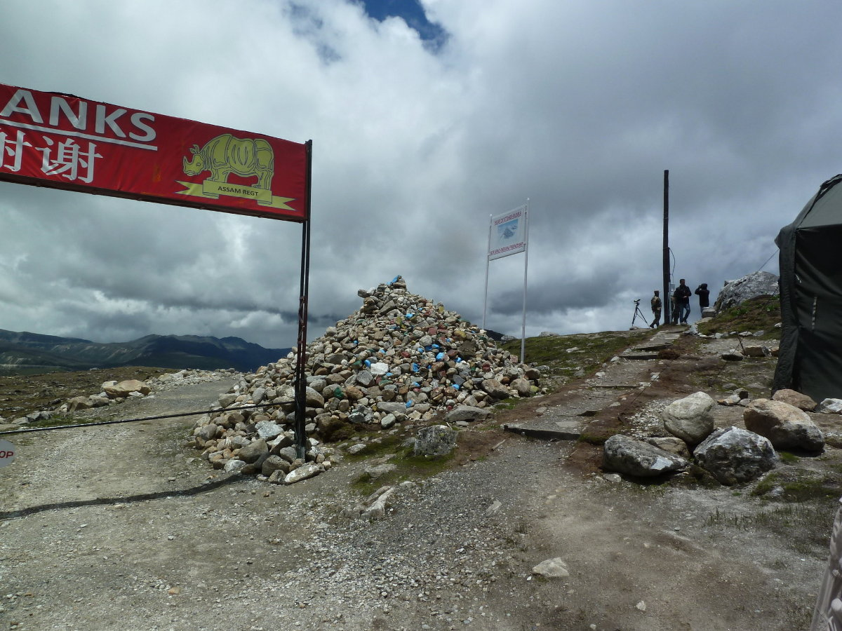 Indo-China border at Bum La Pass in the Zemithang circle